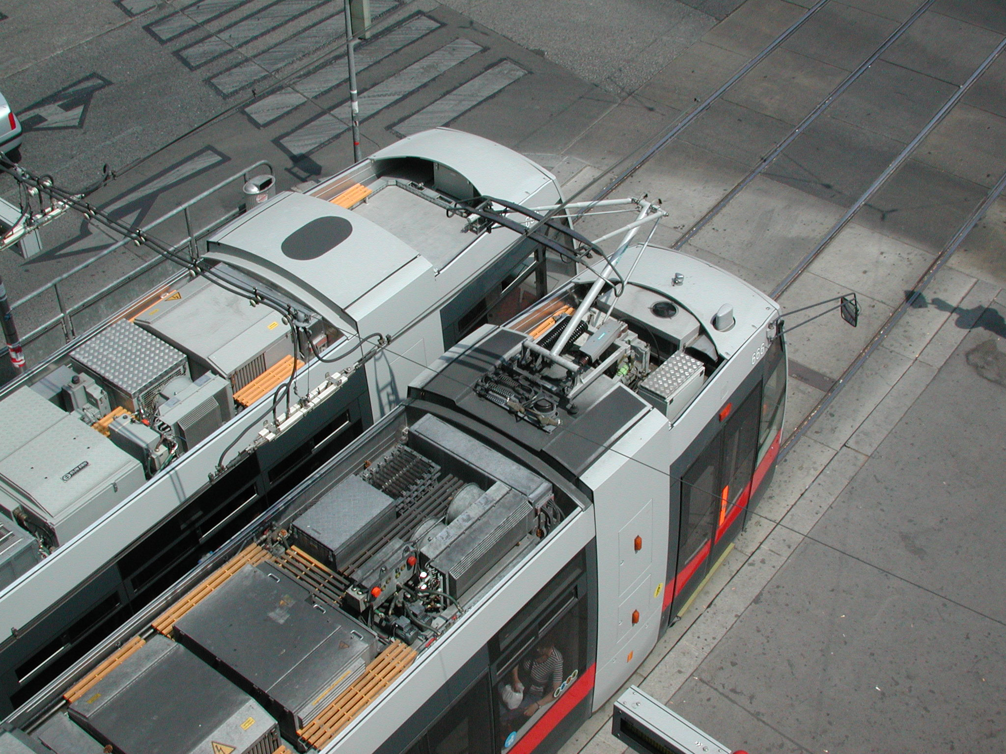 Roof equipment of ultra low floor trams in Vienna.